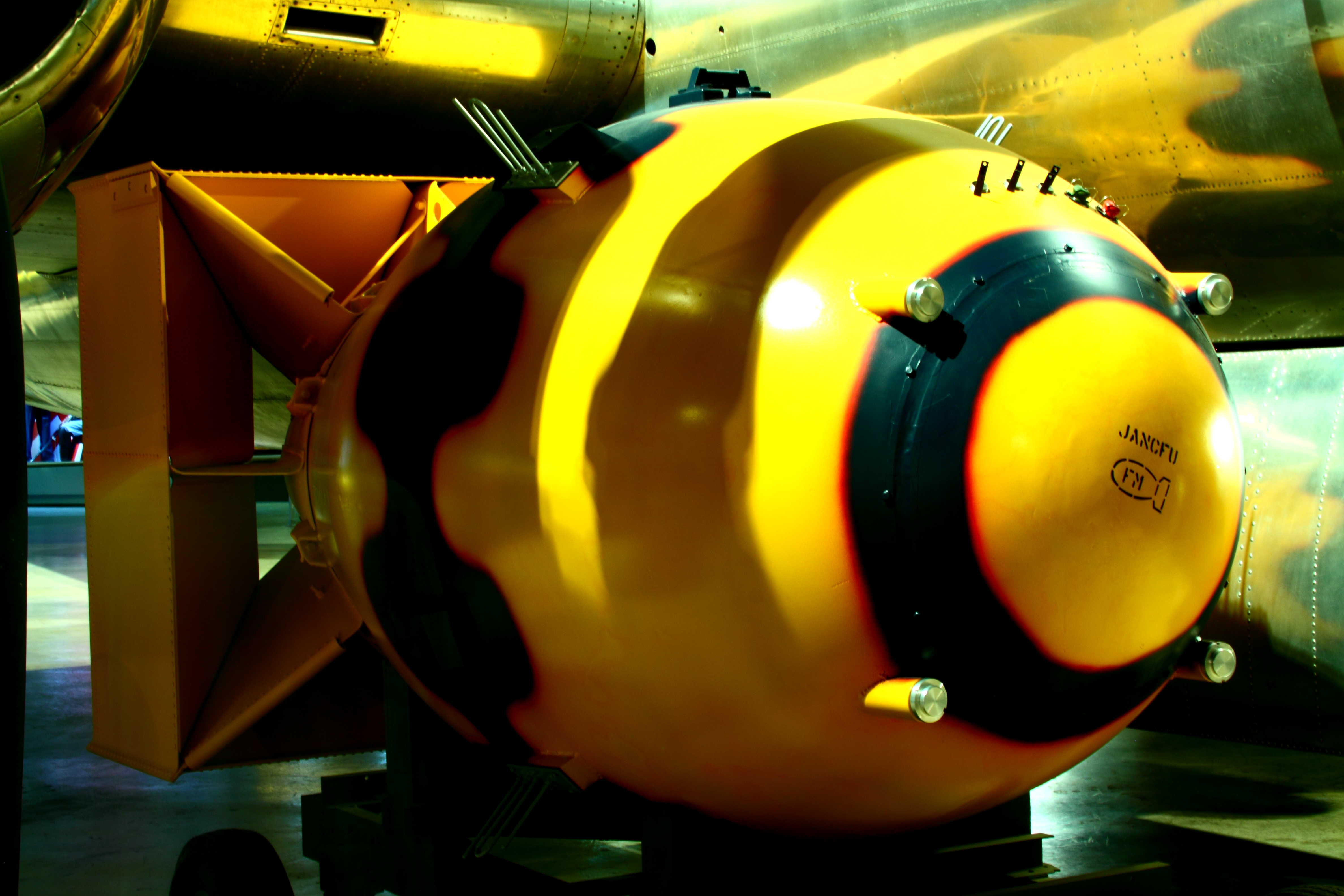 Photograph of the Fat Man atomic bomb replica found in the Wright-Patterson Air Force Museum tour.